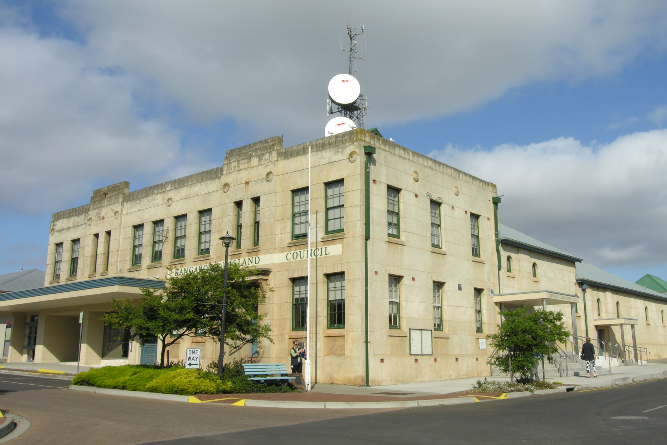 The building of Kangaroo Island Council